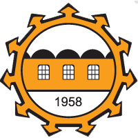 Logo of the Nicosia Turkish Municipality